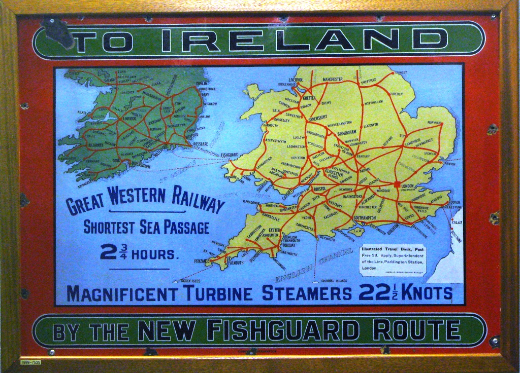 An enamel advertising sign for the Great Western Railway's shipping services from Fishguard, Wales, to Ireland. It is on display at the National Railway Museum, York, England.